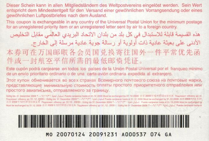 Reverse side of International reply coupon, «centenary special» version. This coupon has been issued in Italy and is exchangeable in any country of the Universal Postal Union until 31-12-2009.